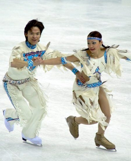 Christina Beier and William Beier at the 2005 European Figure Skating Championships